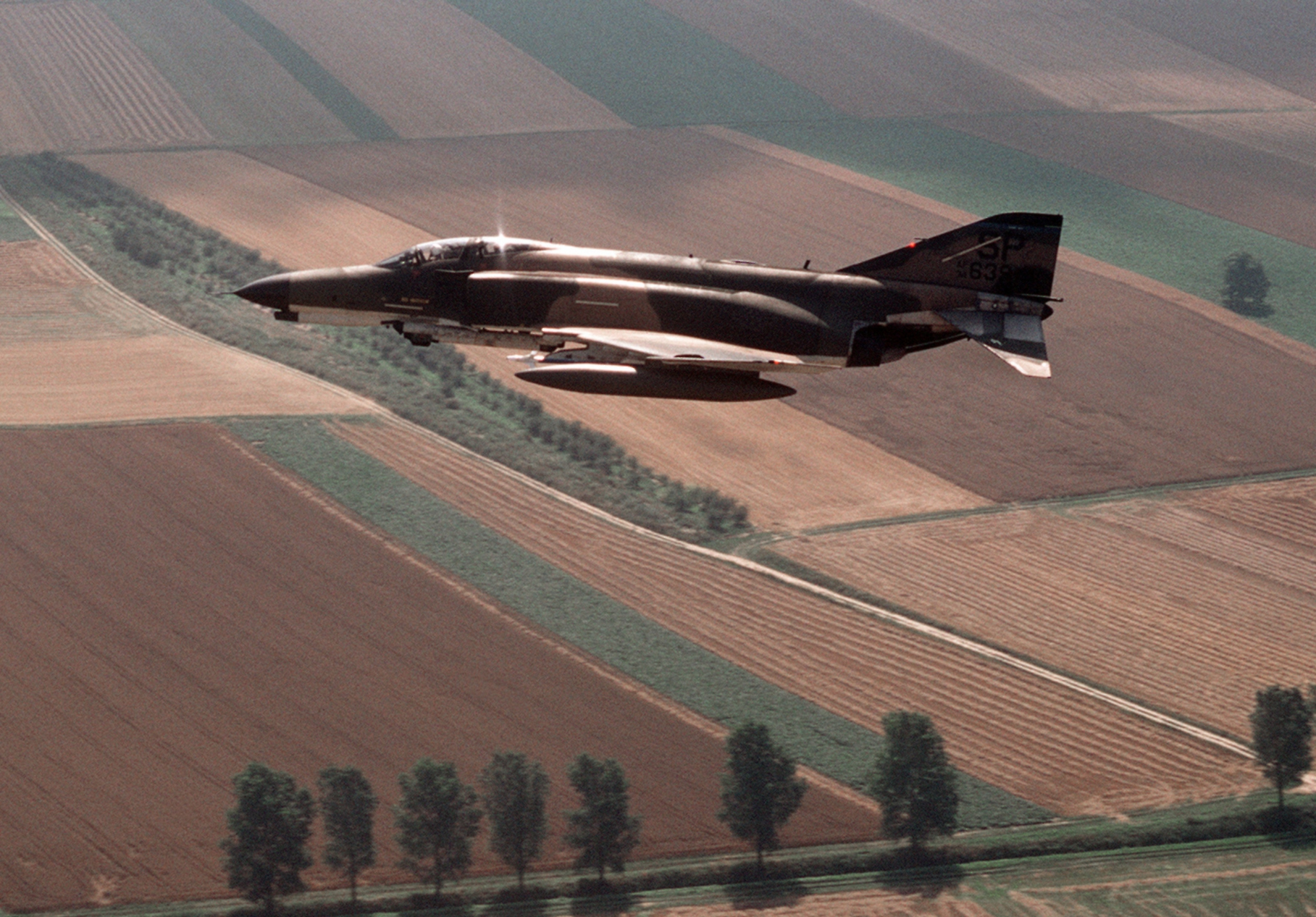 A U.S. Air Force McDonnell Douglas F-4E-62-MC Phantom II aircraft (s/n 74-1639) carrying an AIM-9J Sidewinder training missile and an AN/ALQ-119 electronic countermeasures pod, in flight ober Germany on 1 August 1982. The aircraft was assigned to the 480th Tactical Fighter Squadron, 52nd Tactical Fighter Wing, Spangdahlem Air Base, Germany.